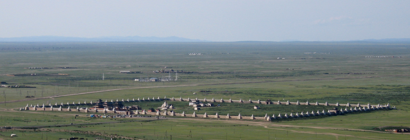 The Erdene Zuu monastery in Mongolia. Site of the ancient Karakorum behind the monastery, to the right (dark green area) Cropped and brightness enhanced version from File:ErdeneZuuMonasteryMongolia.JPG by User:Betta27